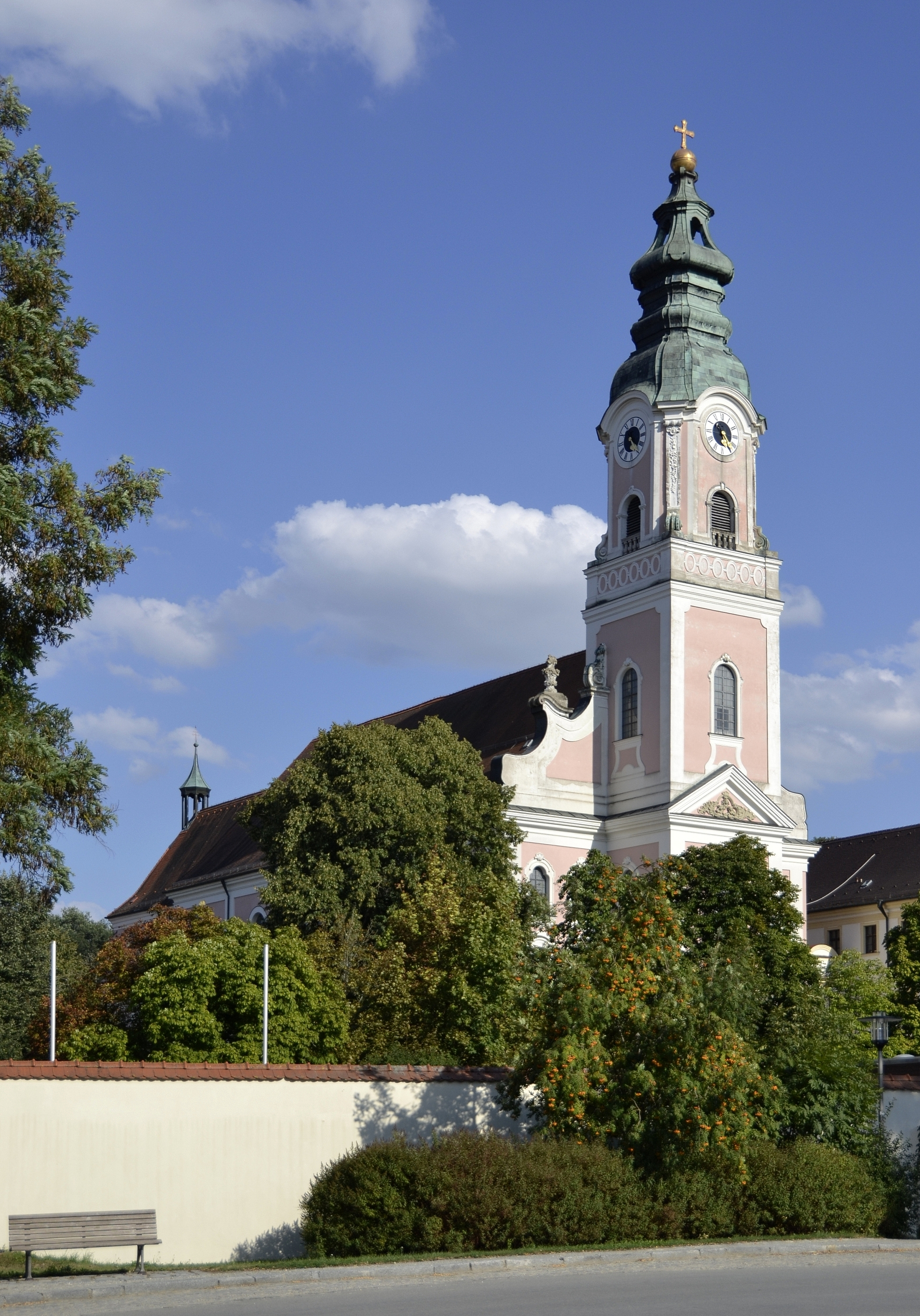 The church Maria Himmelfahrt of Aldersbach Abbey in Bavaria, Germany.